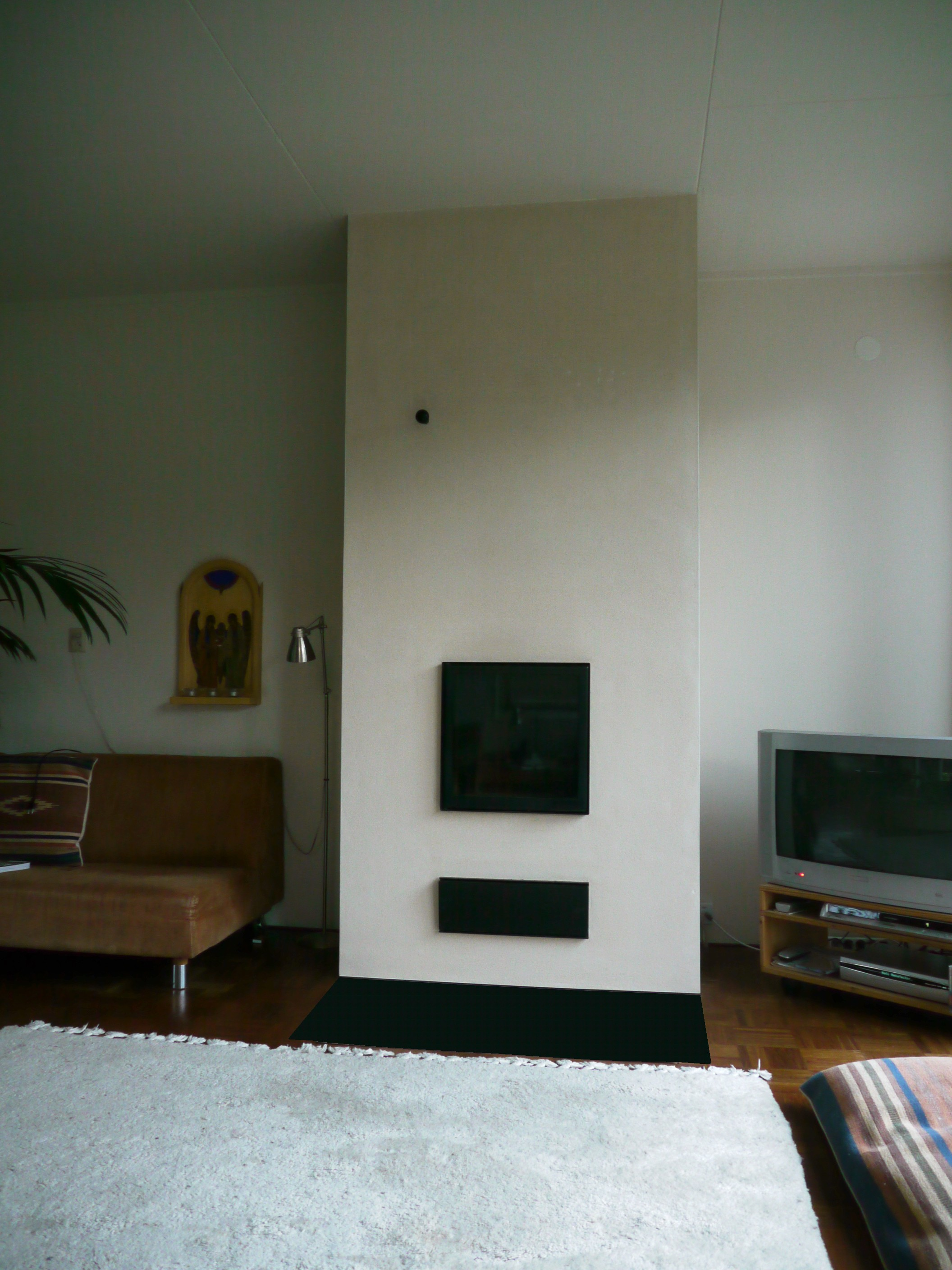 Modern masonry heater (Brandname Tigchelaar from Reduzum, Netherlands)